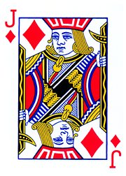 A Playing card: jack of diamonds , from poker deck, in small png format.